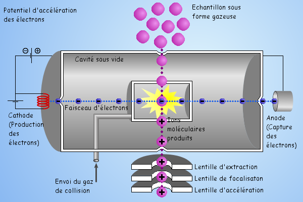 Mass spectrometry, chimical ionization source